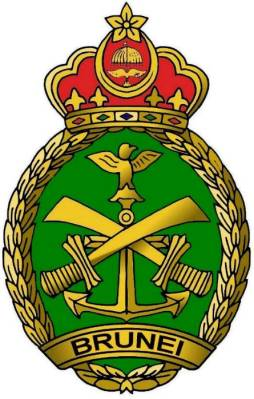 Armed Forces of Brunei Emblem